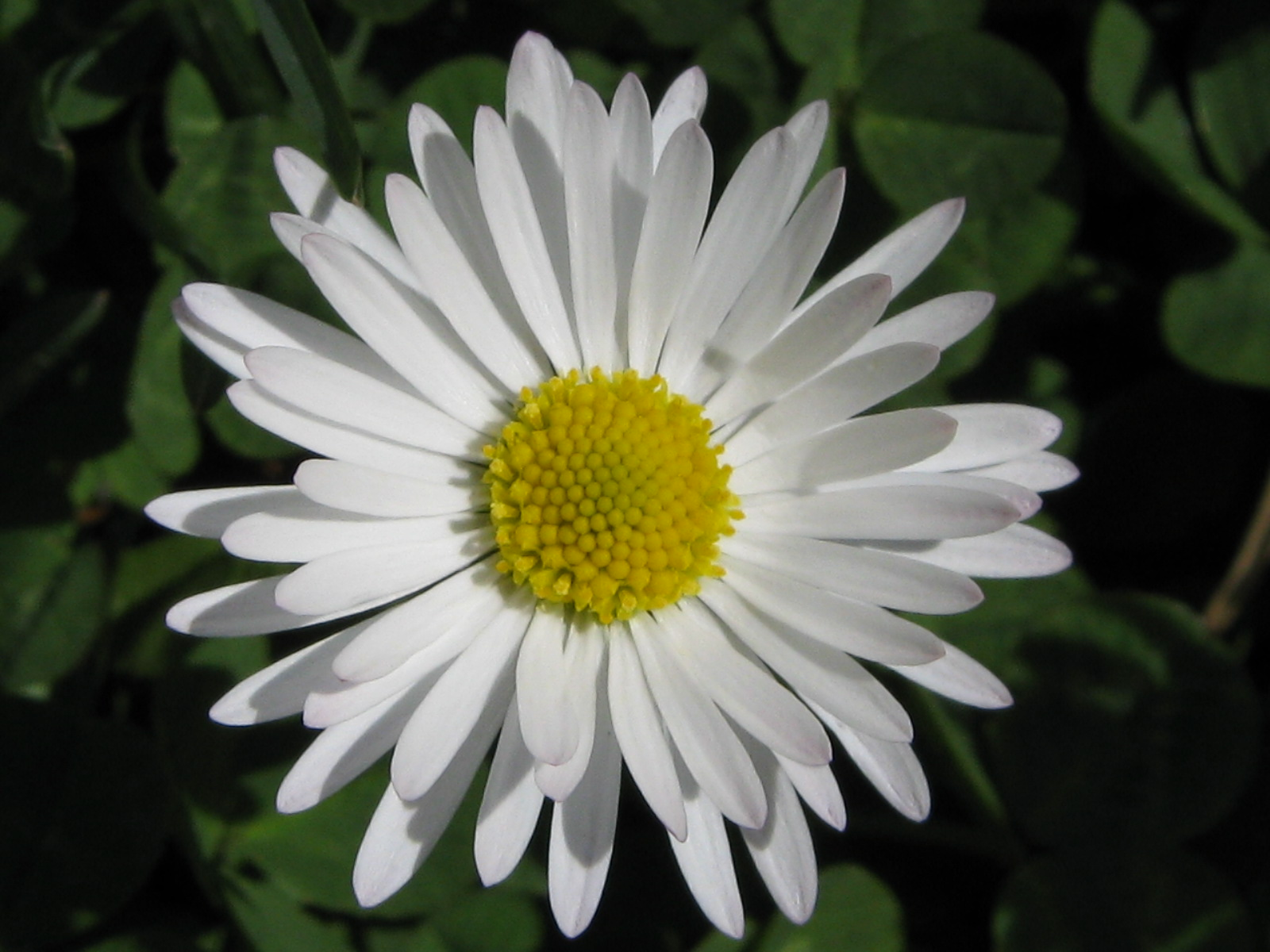 Daisy